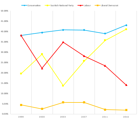 Electoral results by party in Scottish Parliament constituency of Ayr